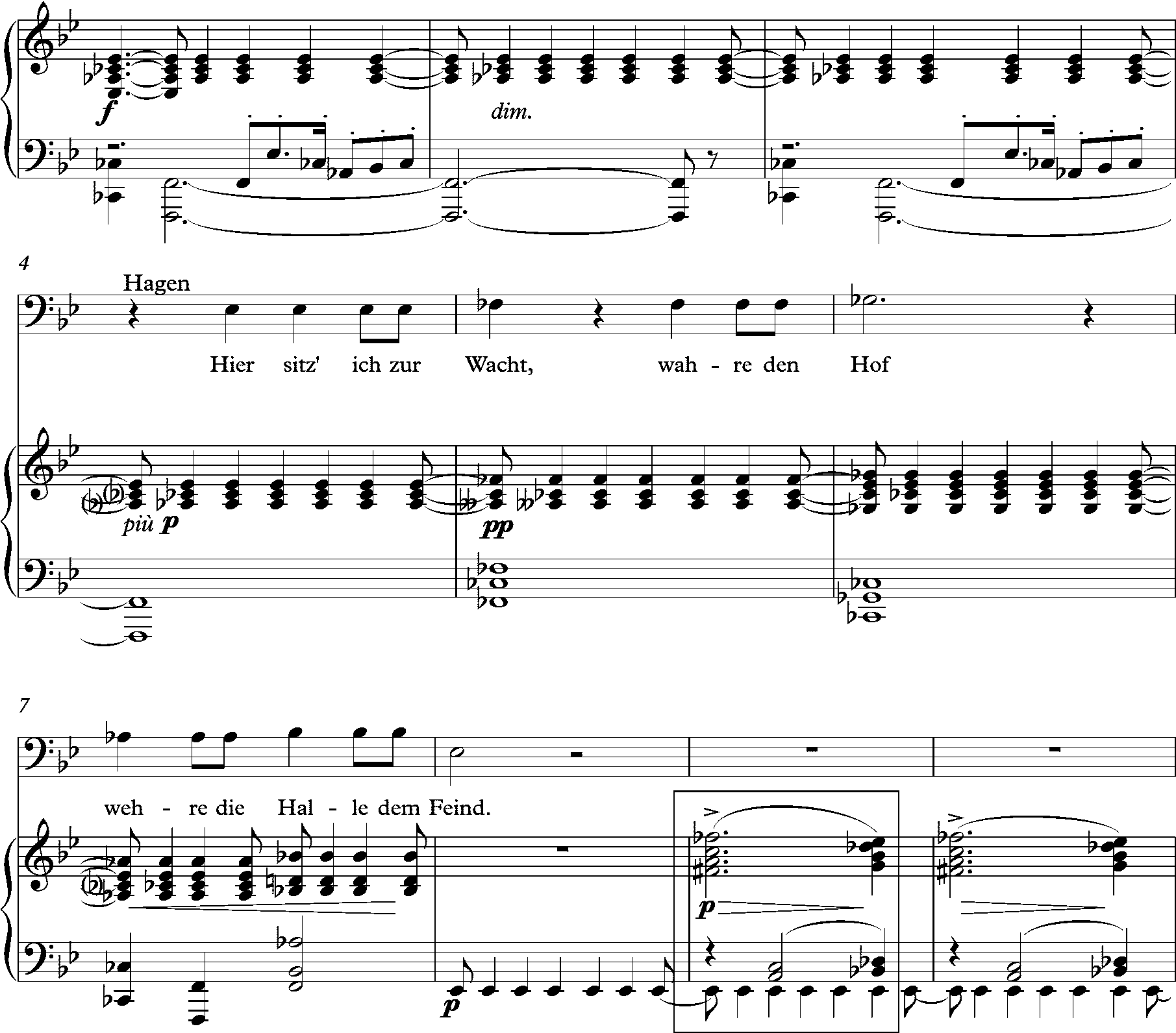 Wagner, Hagen's Watch from Act 1 of Gotterdamerung